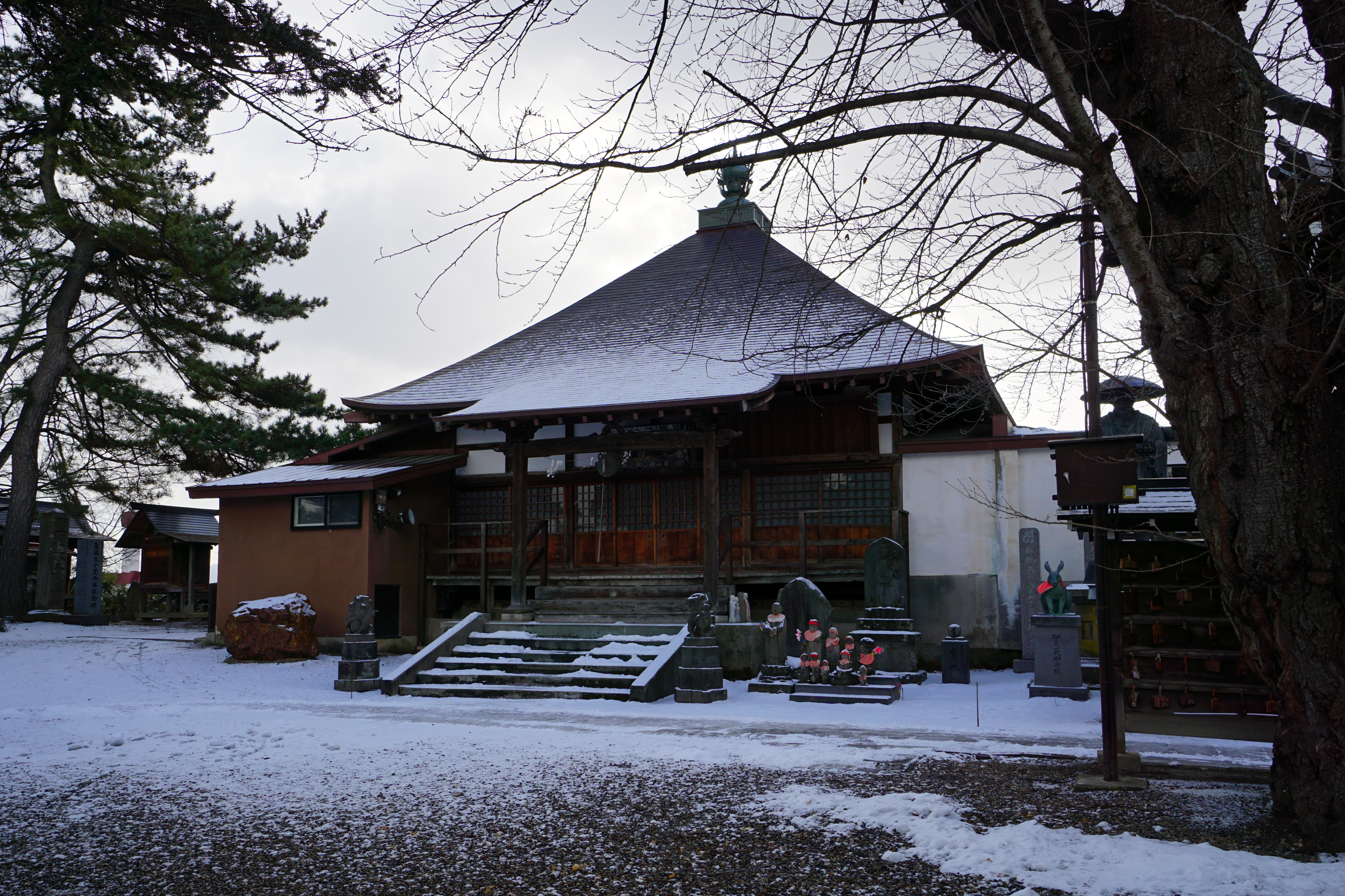 Saishō-in in Hirosaki, Aomori prefecture, Japan